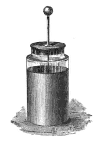 Drawing of a Leyden jar, an antique piece of physics apparatus for storing electric charge, from an 1889 physics textbook. It consists of a glass jar with metal foil glued to the inside and outside. A metal electrode projects down through the wood stopper into the jar, with a metal chain or spring attached to the end which made contact with the inner foil so it can be charged with electricity.